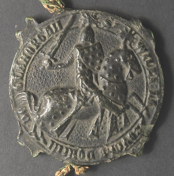 1329 seal of William la Zouche, 1st Baron Zouche of Mortimer (d.1337), jure uxoris Lord of Glamorgan, husband of Eleanor de Clare (1292-1337), daughter and eventual heiress of Gilbert de Clare, 6th Earl of Hertford, 7th Earl of Gloucester, Lord of Glamorgan and feudal baron of Gloucester. Inscribed: S(igillum) Will(elm)i La Zouche Domini De Glamorgan ("Seal of William la Zouche, Lord of Glamorgan"). His shield and the caparison of his horse show the Zouche arms Gules,bezantée. 7.7 cm diameter. National Library of Wales, Penrice and Margam Deeds 204 (Front). Description: Armoured man with crested helm and armorial surcoat (bezantee) holding a sword up in his right hand and a shield (10 bezants) on his left arm on a horse with armorial caparisons (bezanty) and head-crest galloping to the right, on a diapered ground. Rhif ffeil delwedd / Image file no. : sea00136 Rhagor o wybodaeth am brosiect Seliau yng Nghymru'r Oesoedd Canol. More information about the Seals in Medieval Wales project